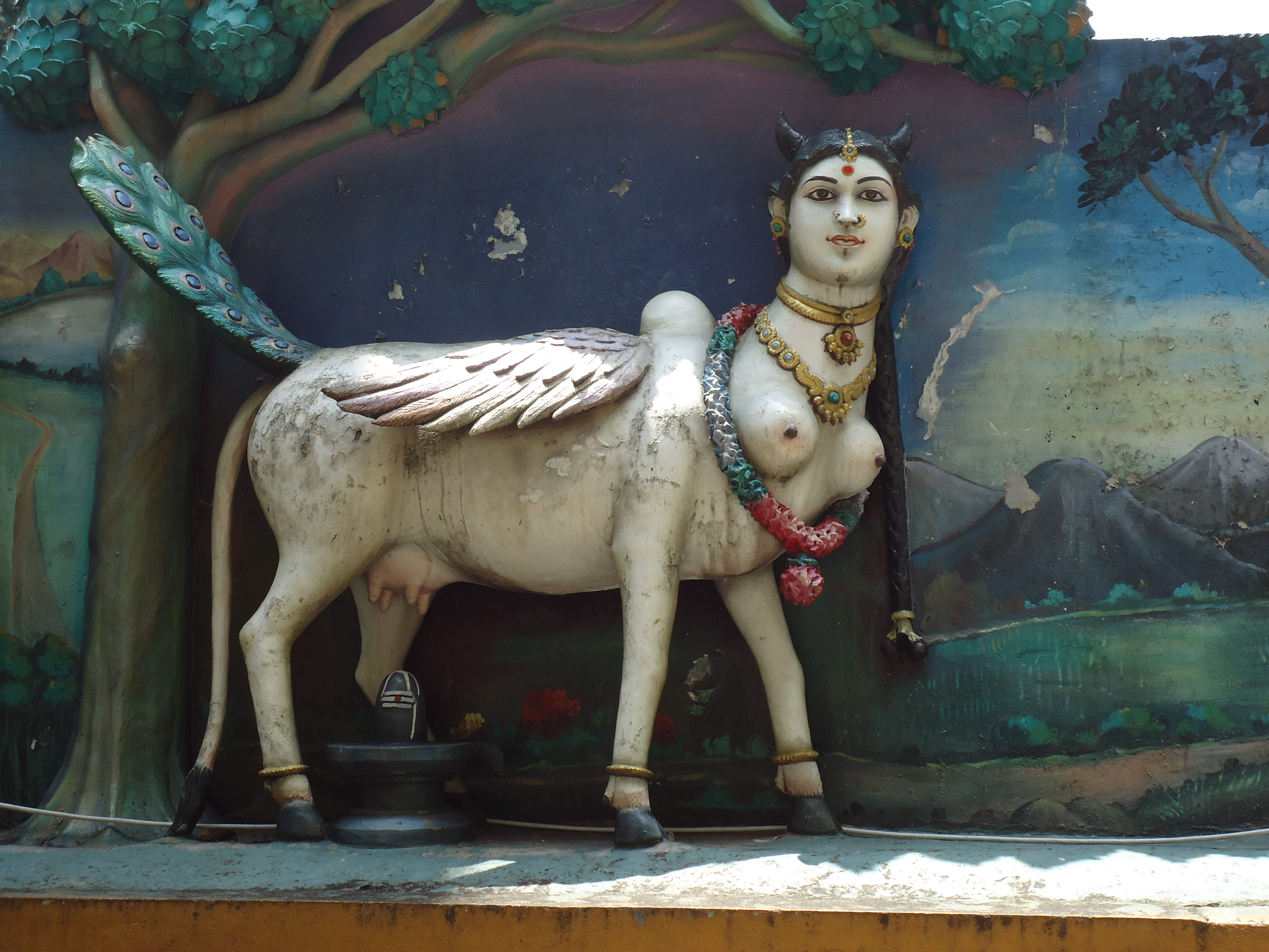 Batu Caves